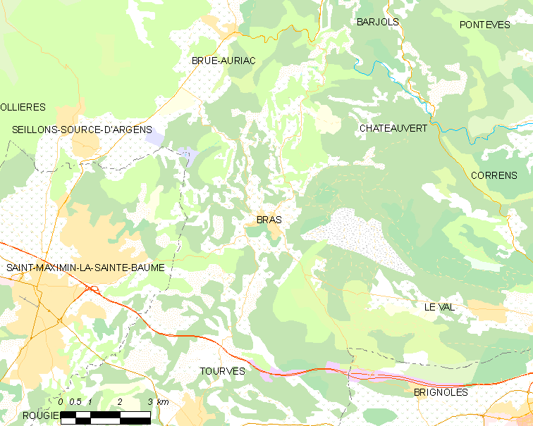 Map of French municipality Bras